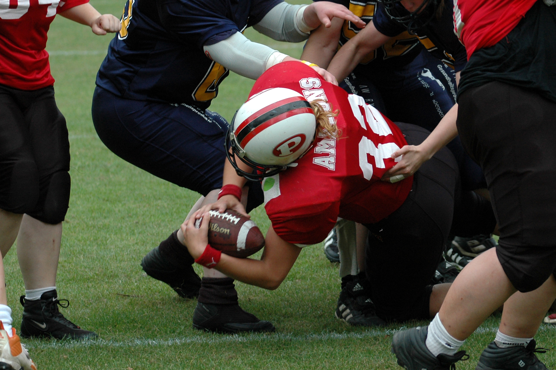 Ladies football game in Germany: Berlin Kobra Ladies at Hamburg Amazons, Semifinal 2005